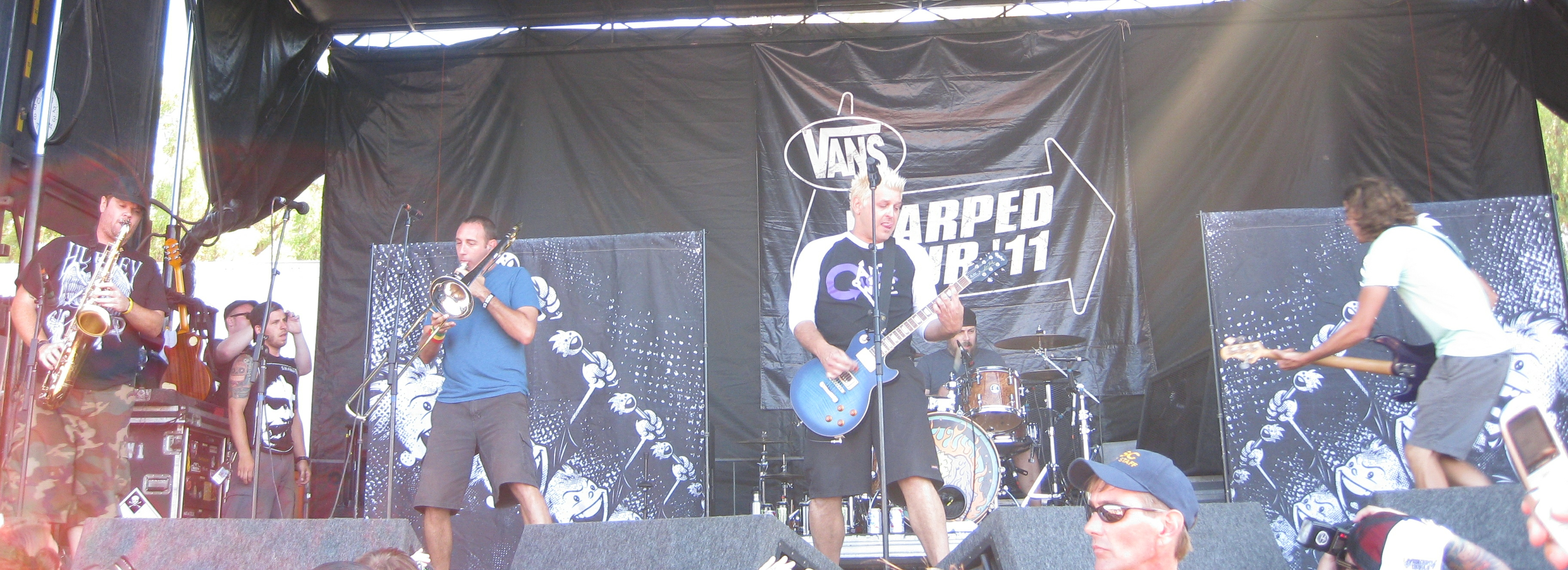 Less Than Jake performing on the Warped Tour in Chula Vista, California on August 9, 2011. Left to right: Peter Wasilewski (saxophone, backing vocals), Buddy Schaub (trombone, backing vocals), Chris Demakes (lead vocals, guitar), Vinnie Fiorello (drums), and substitute bassist Will Kubley of the band Passafire (Less Than Jake bassist Roger Manganelli was absent due to his wife giving birth).